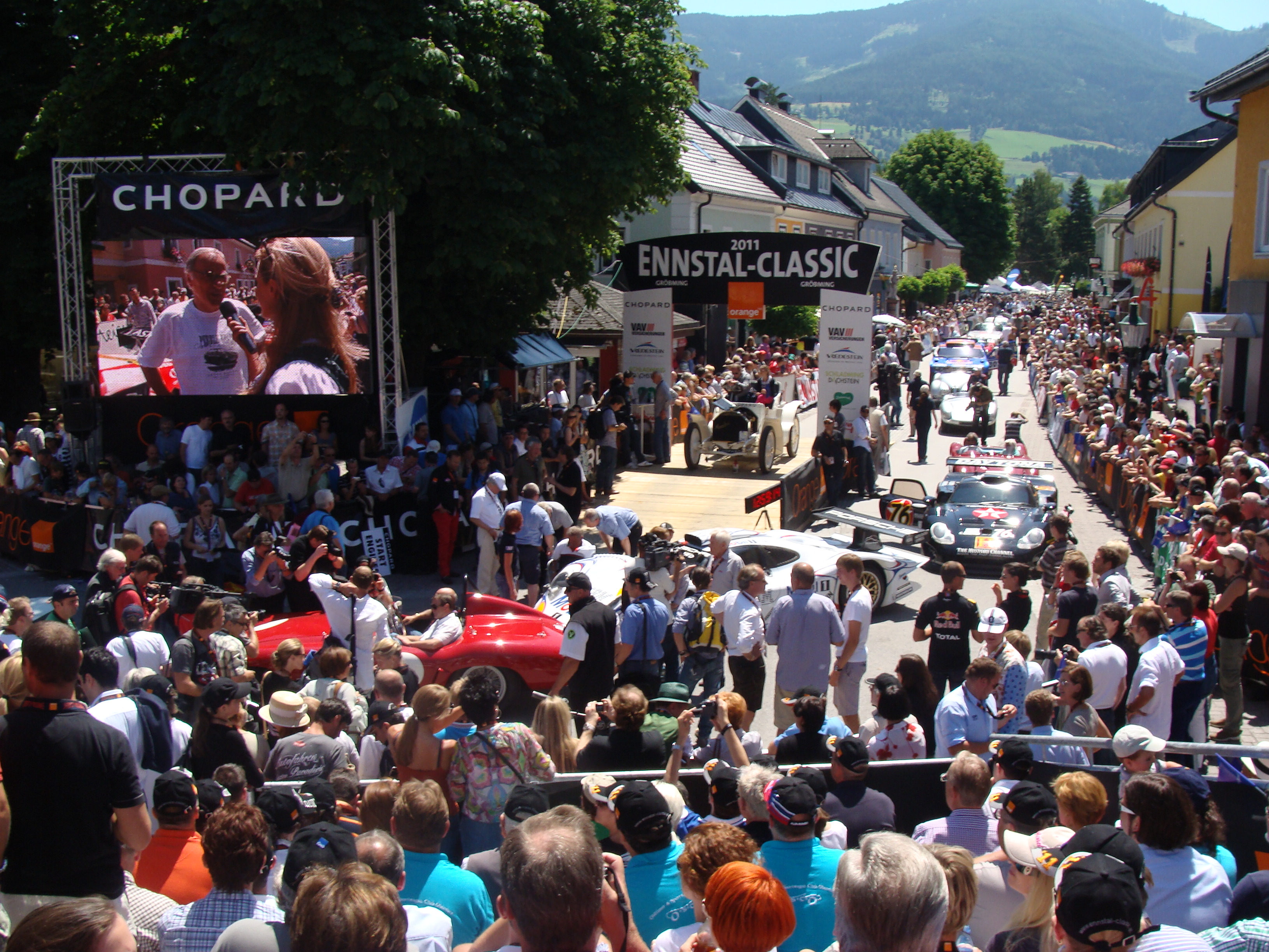 Starting Grid at the Ennstal-Classic Chopard GP 2011 in Gröbming